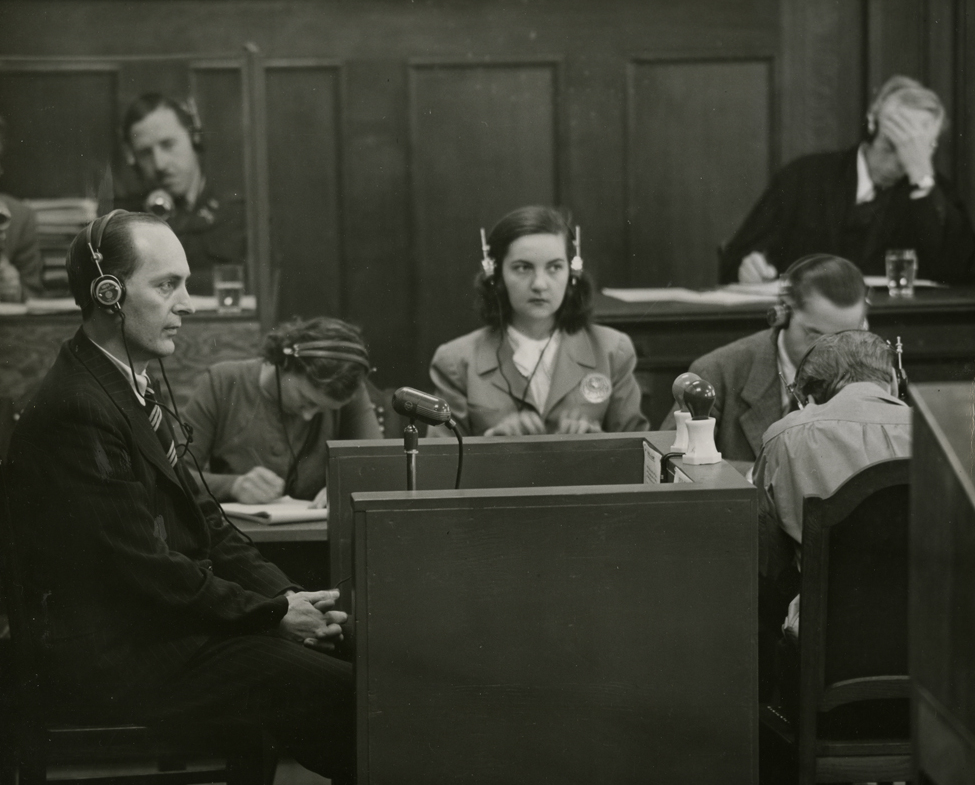 Prosecution witness Robert Havemann sits on the witness stand at the Nuremberg Trials (Case III)